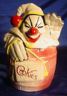 Cookie jar depicting clown.